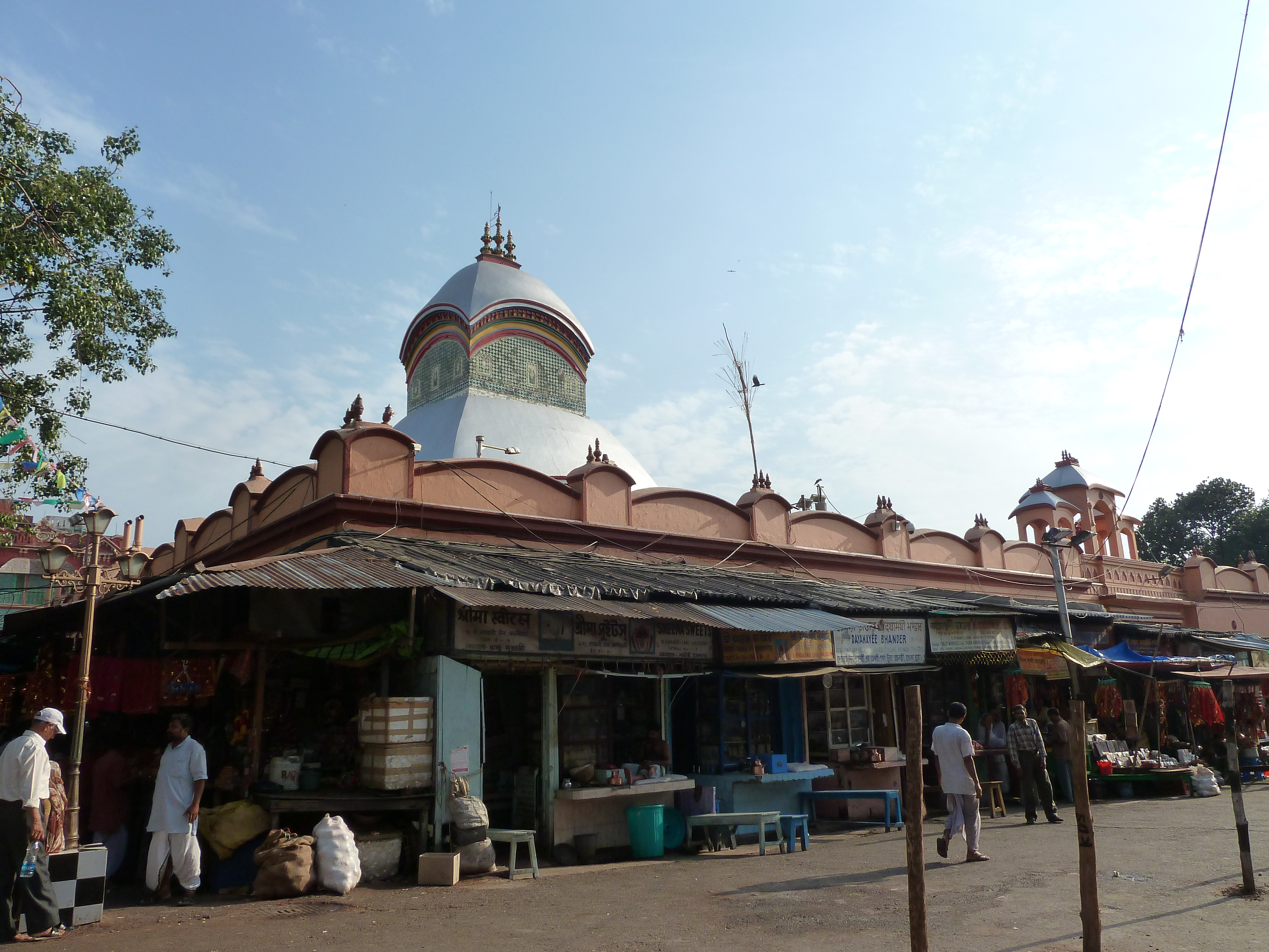 Kalighat temple located in Kolkata